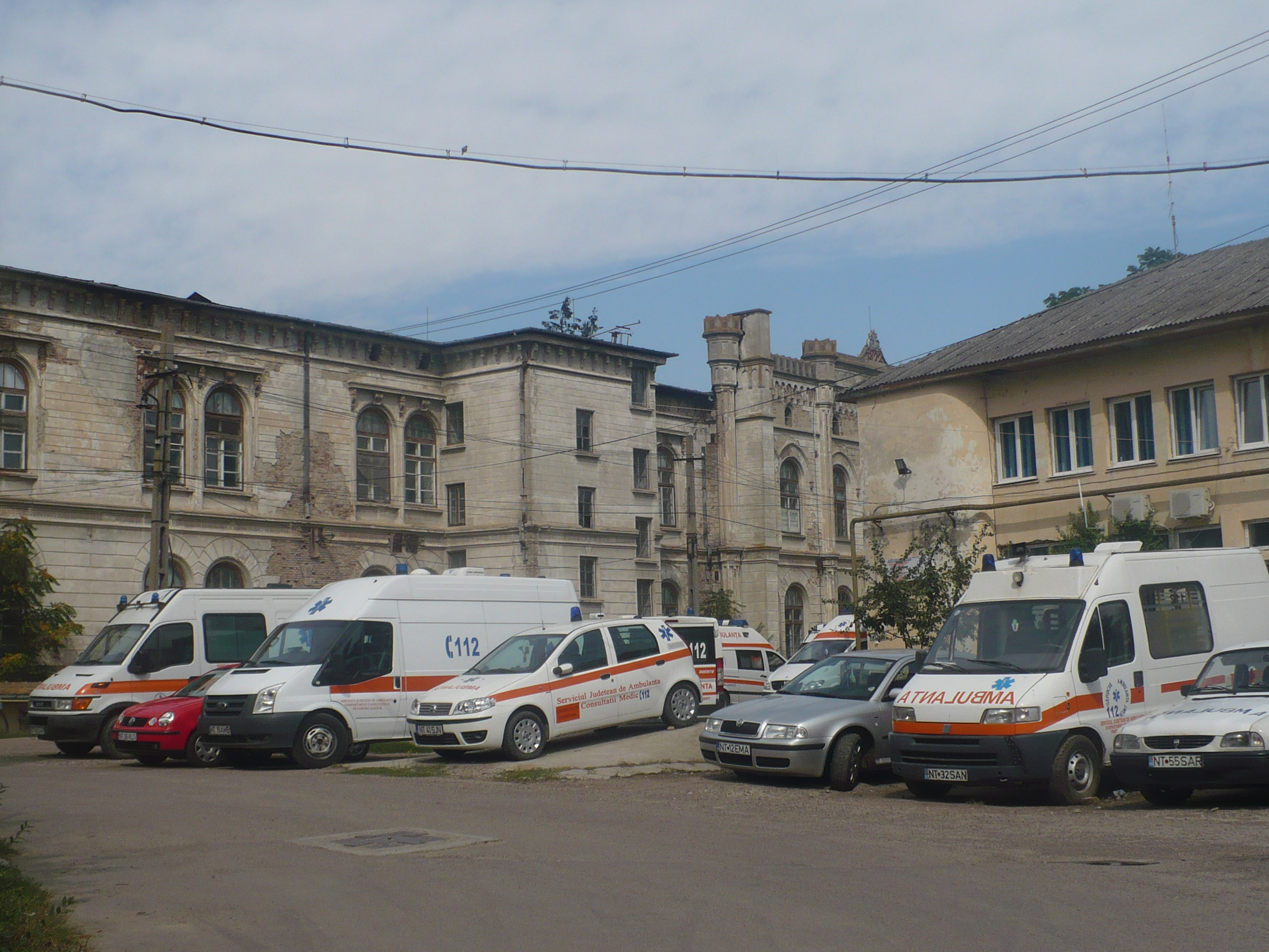 Old hospital, Roman, Romania